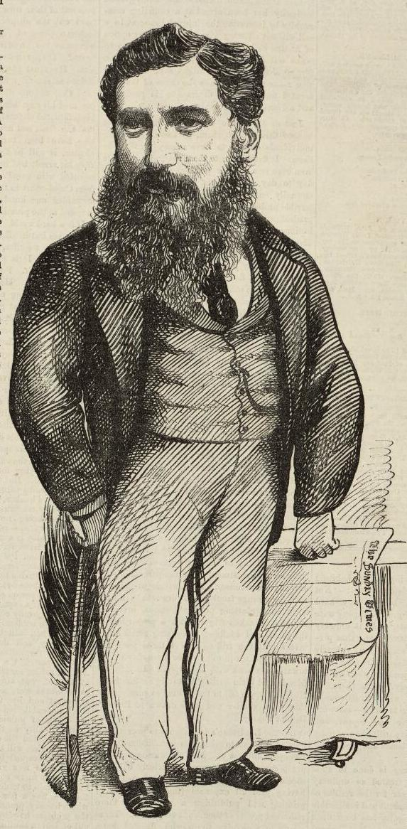 A portrait from the Welsh Portrait Collection at the National Library of Wales. Depicted person: Joseph Knight – English dramatic critic and theatre historian